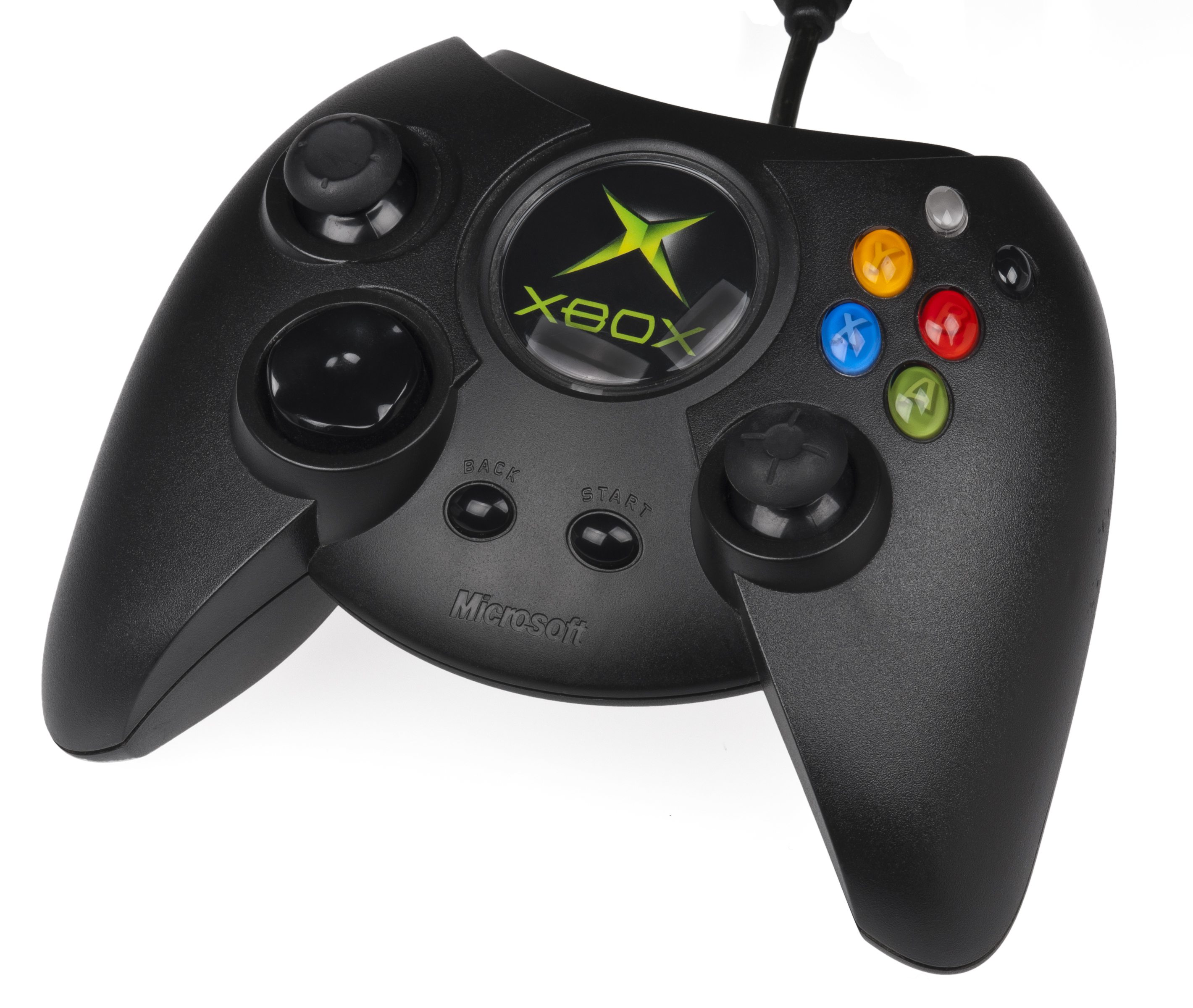 The original controller for the American Xbox video game console, sometimes called the "Duke" controller.